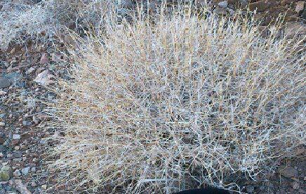 Acanthophyllum squarrosum in Iran Bikh